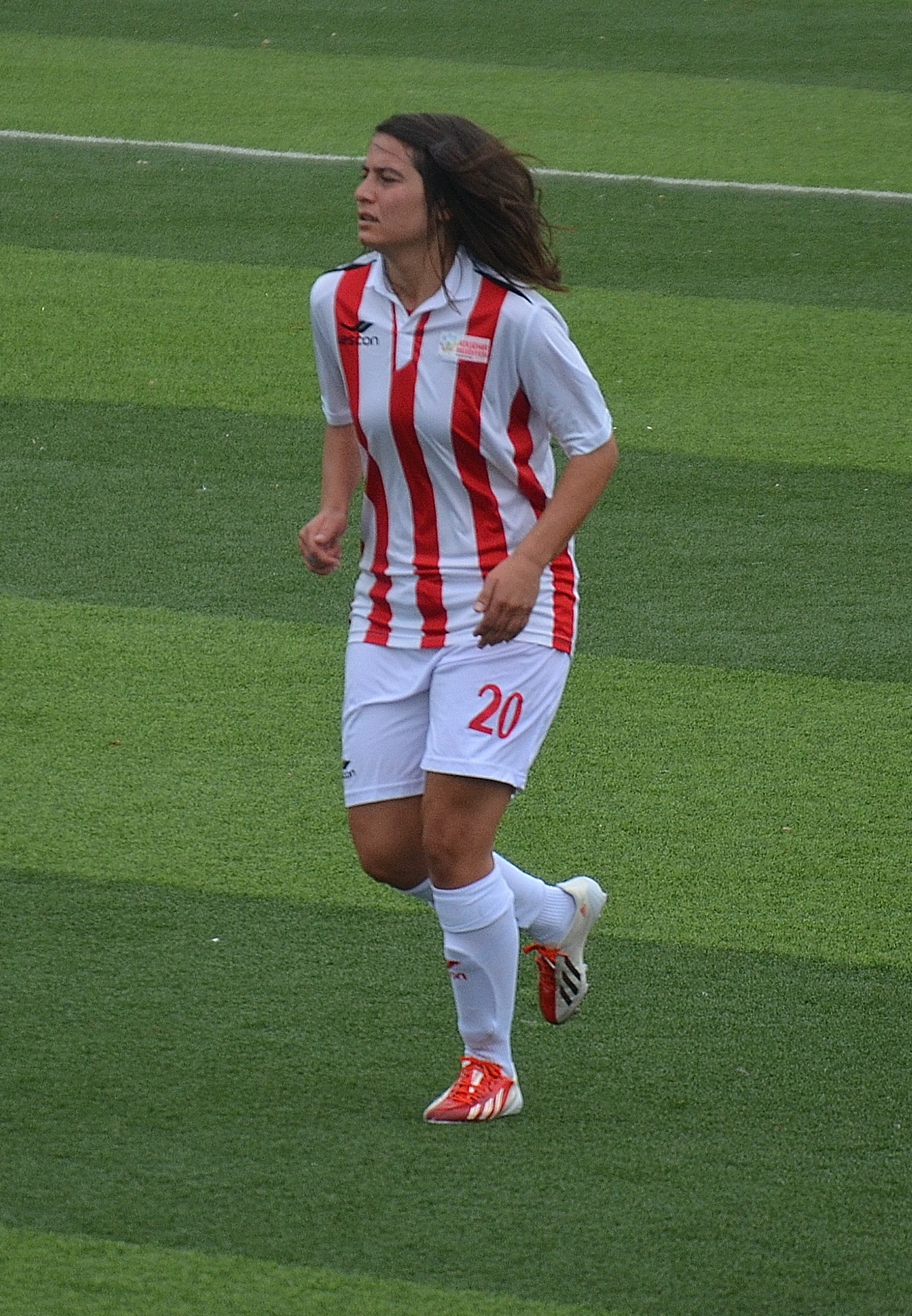 Merve Aladağ for Ataşehir Belediyespor in the 2014-15 season